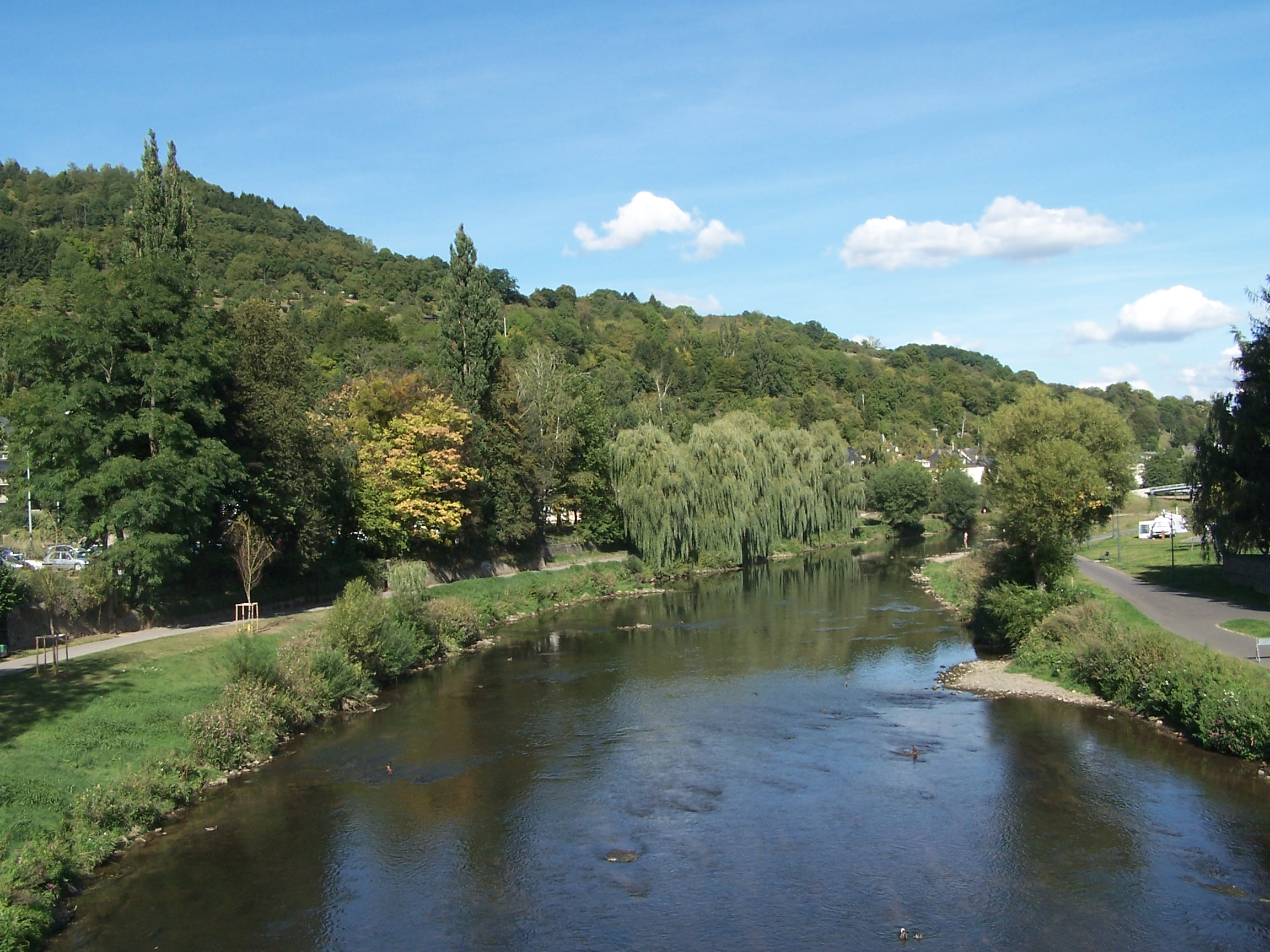 A photo of the Sauer river from a bridge near the center of Diekirch.